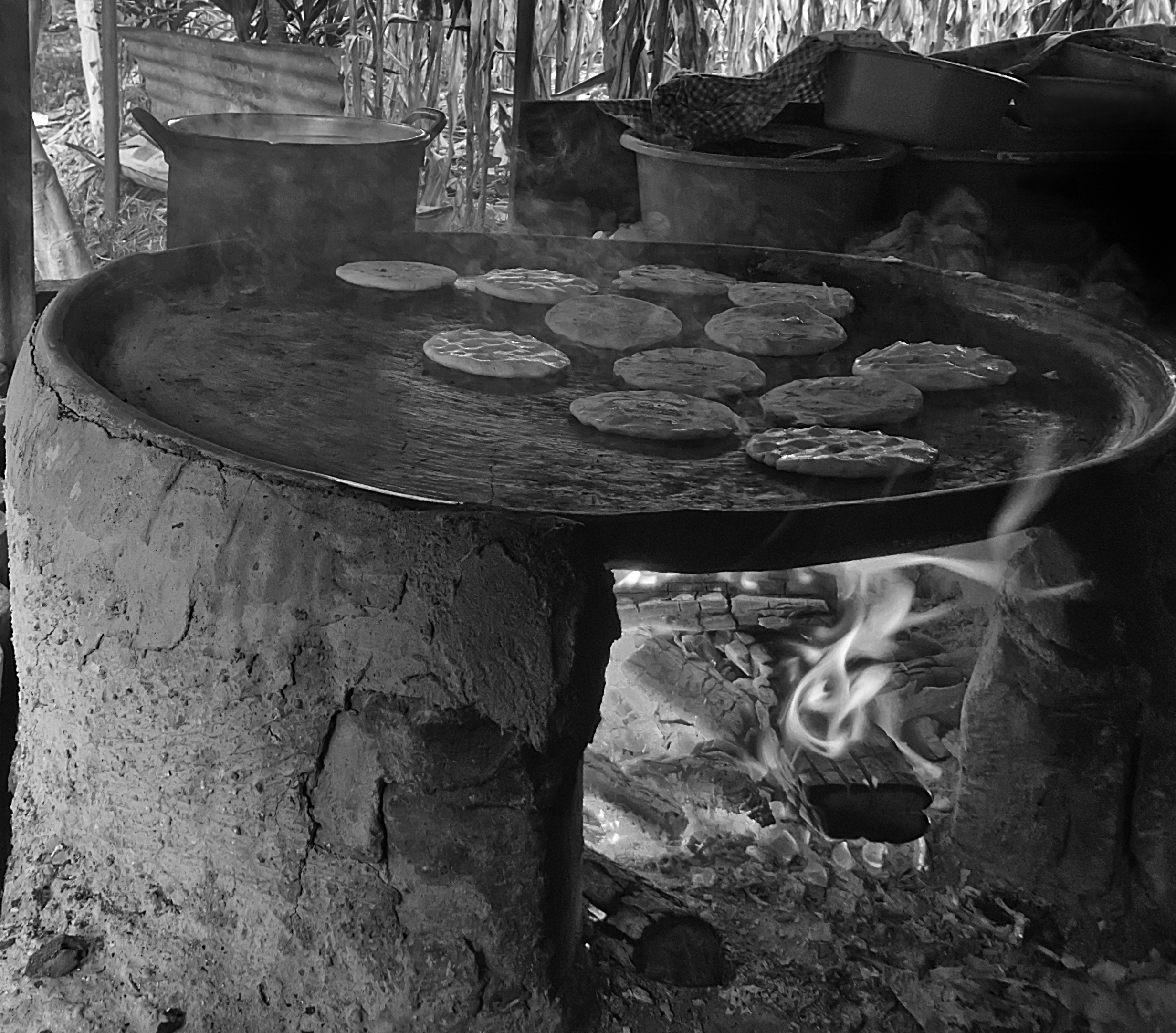 Pupusas, in El Salvador, cooked over traditional wood fire, with a pottery griddle (comal). Note that even in 2012, this is still commonly done in villages and the countryside, where it is easier (and cheaper) to get firewood.